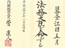 Naoto Kan, Prime Minister, presented the letter of appointment for the Minister of Justice to Satsuki Eda on January 14, 2011.